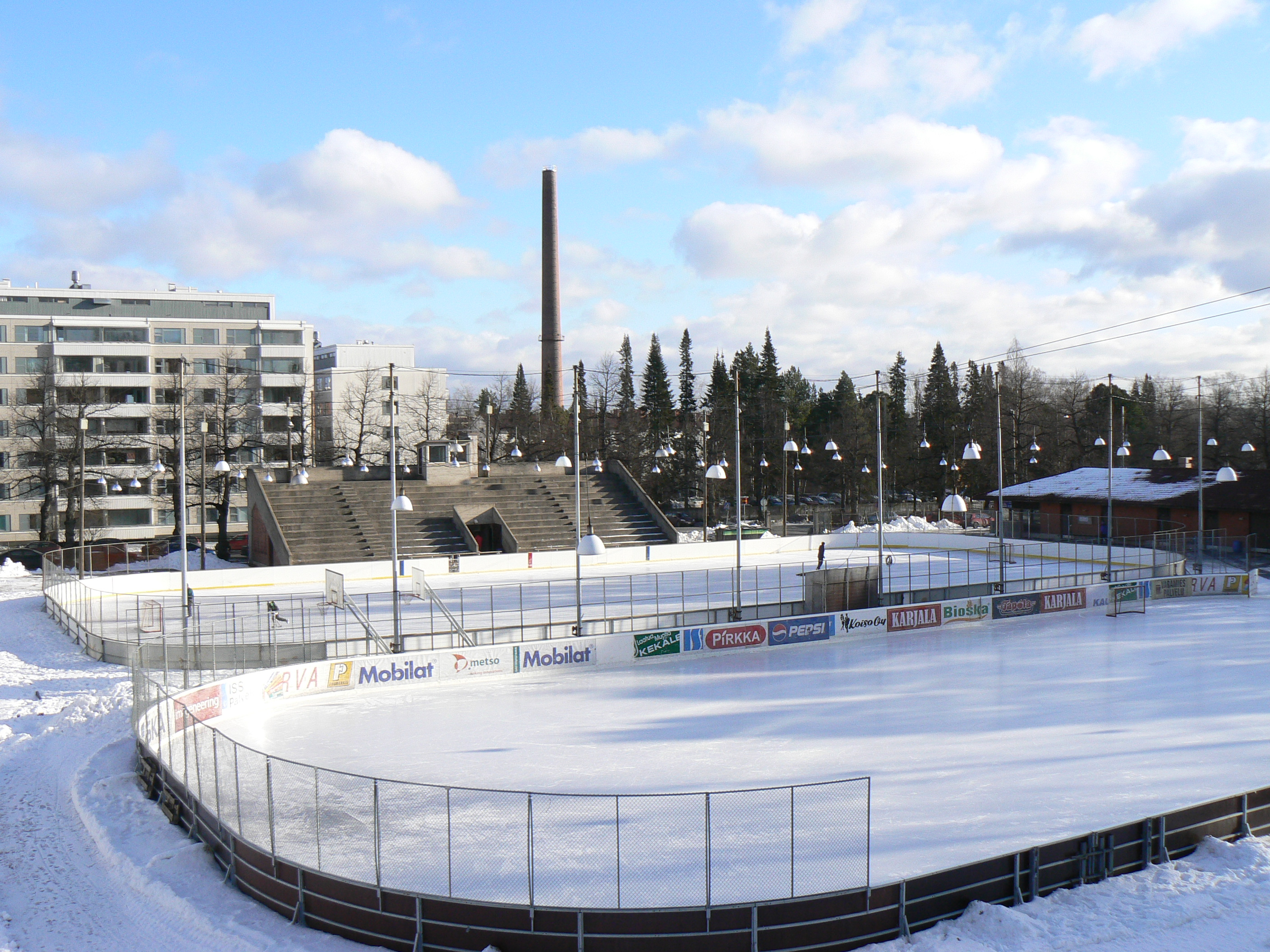 The old Koulukatu ice sports venue in Tampere, Finland.